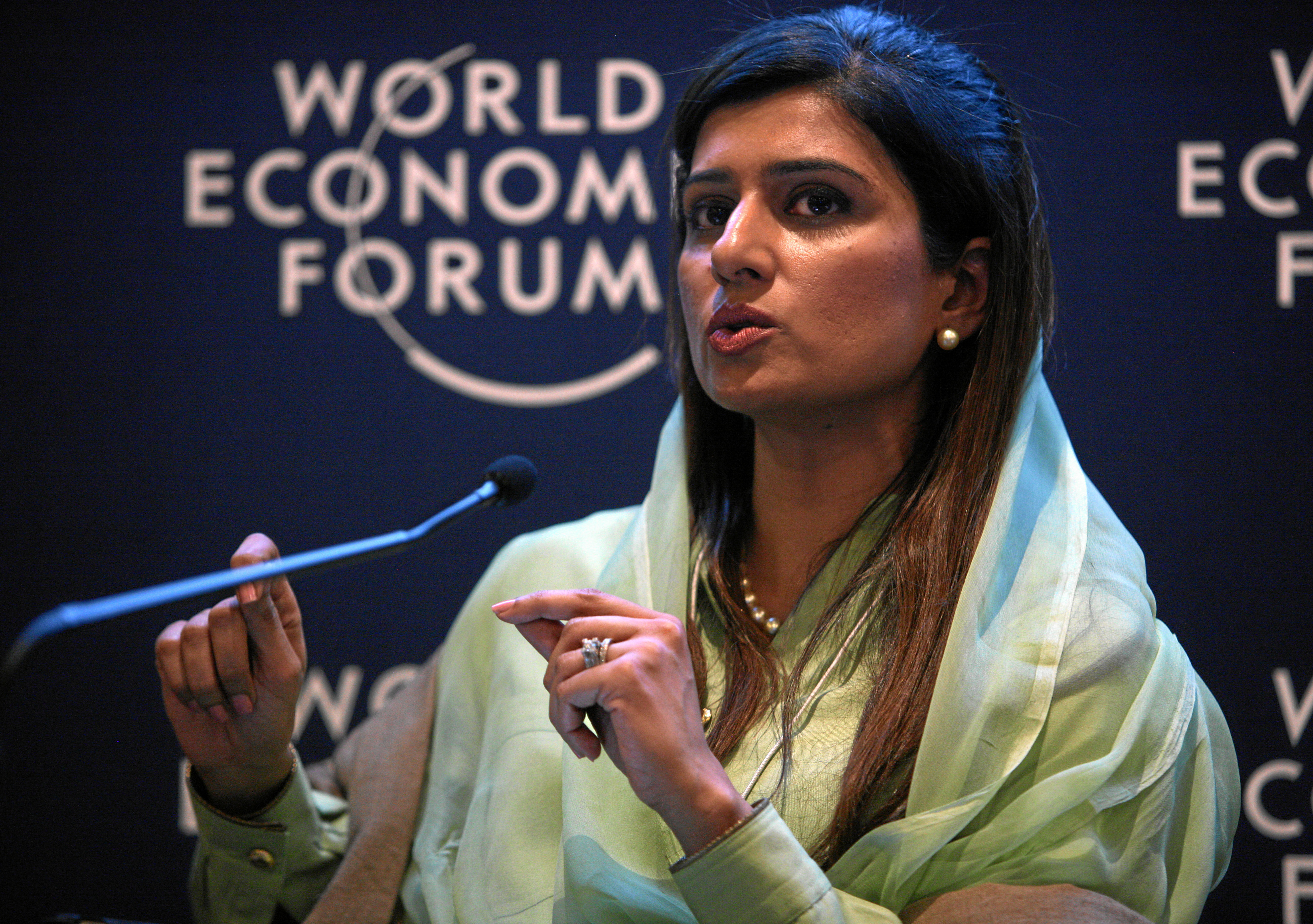 DAVOS/SWITZERLAND, 26JAN12 - Hina Rabbani Khar, Minister of Foreign Affairs of Pakistan is captured during the session 'The Future of South Asia' at the Annual Meeting 2012 of the World Economic Forum in the congress center in Davos, Switzerland, January 26, 2012.. . Copyright by World Economic Forum. by Remy Steinegger